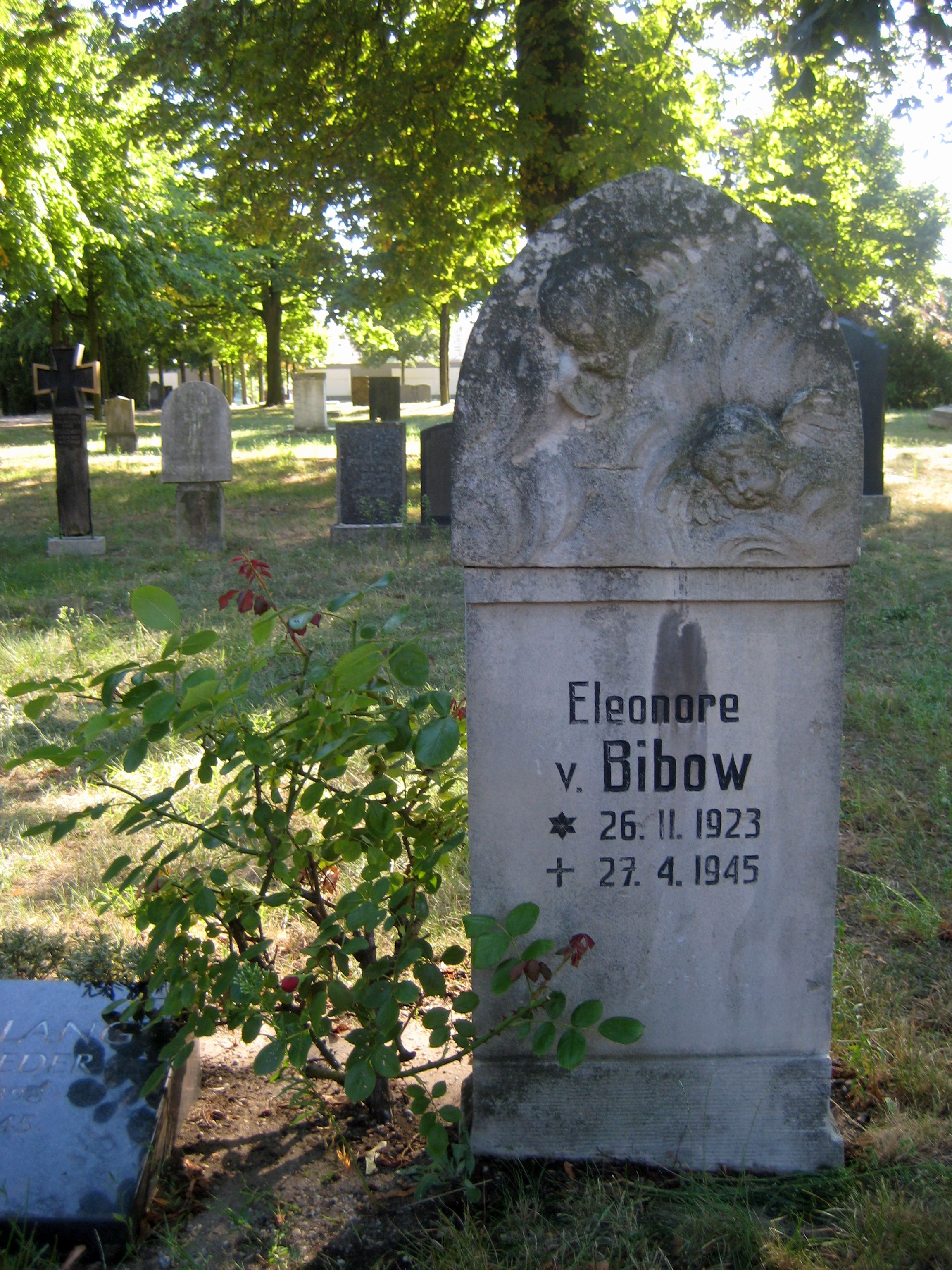 grave of Eleonore von Bibow on Invalidenfriedhof cemetery in Berlin (1945)